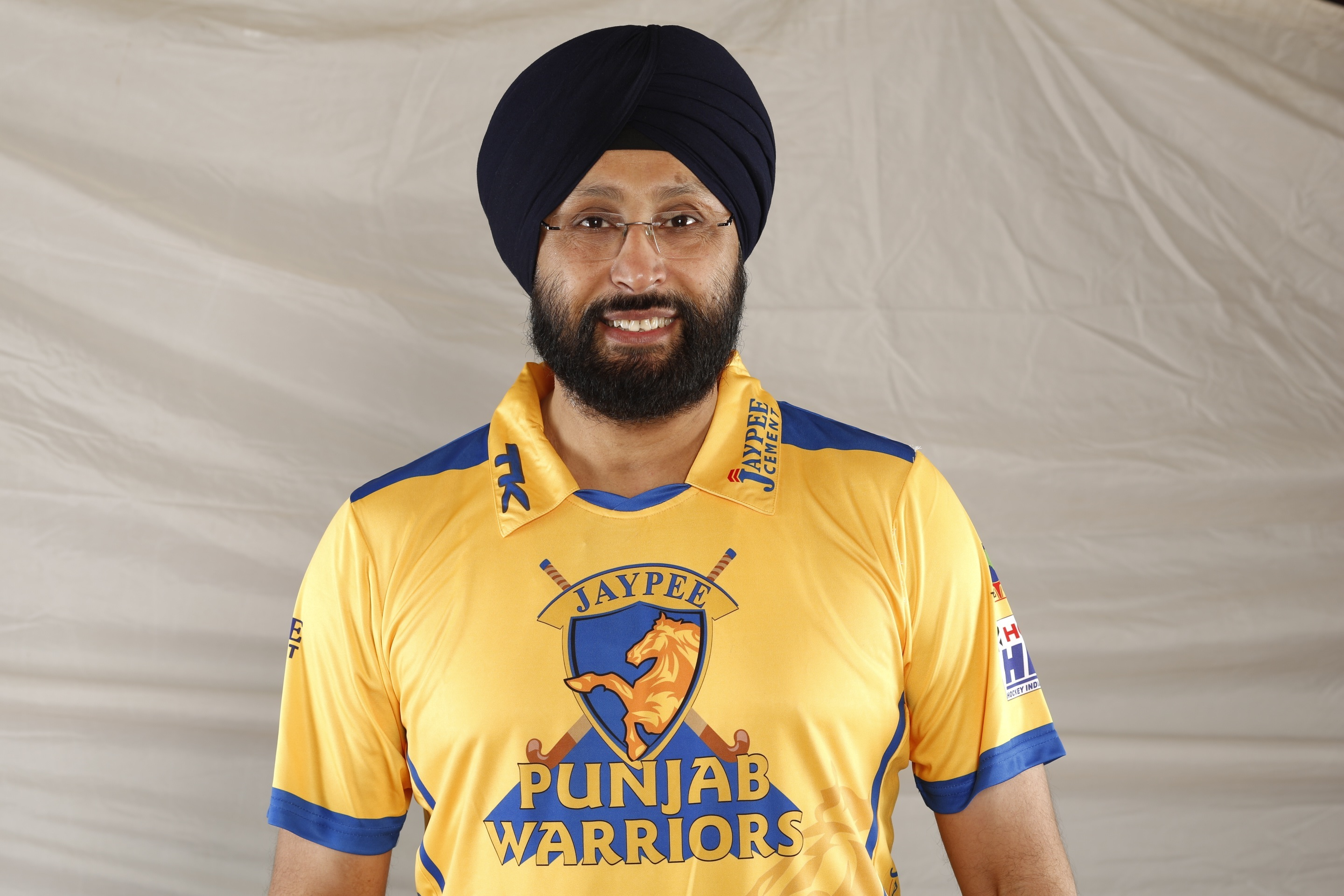 jagbir singh coach of punjab warriors